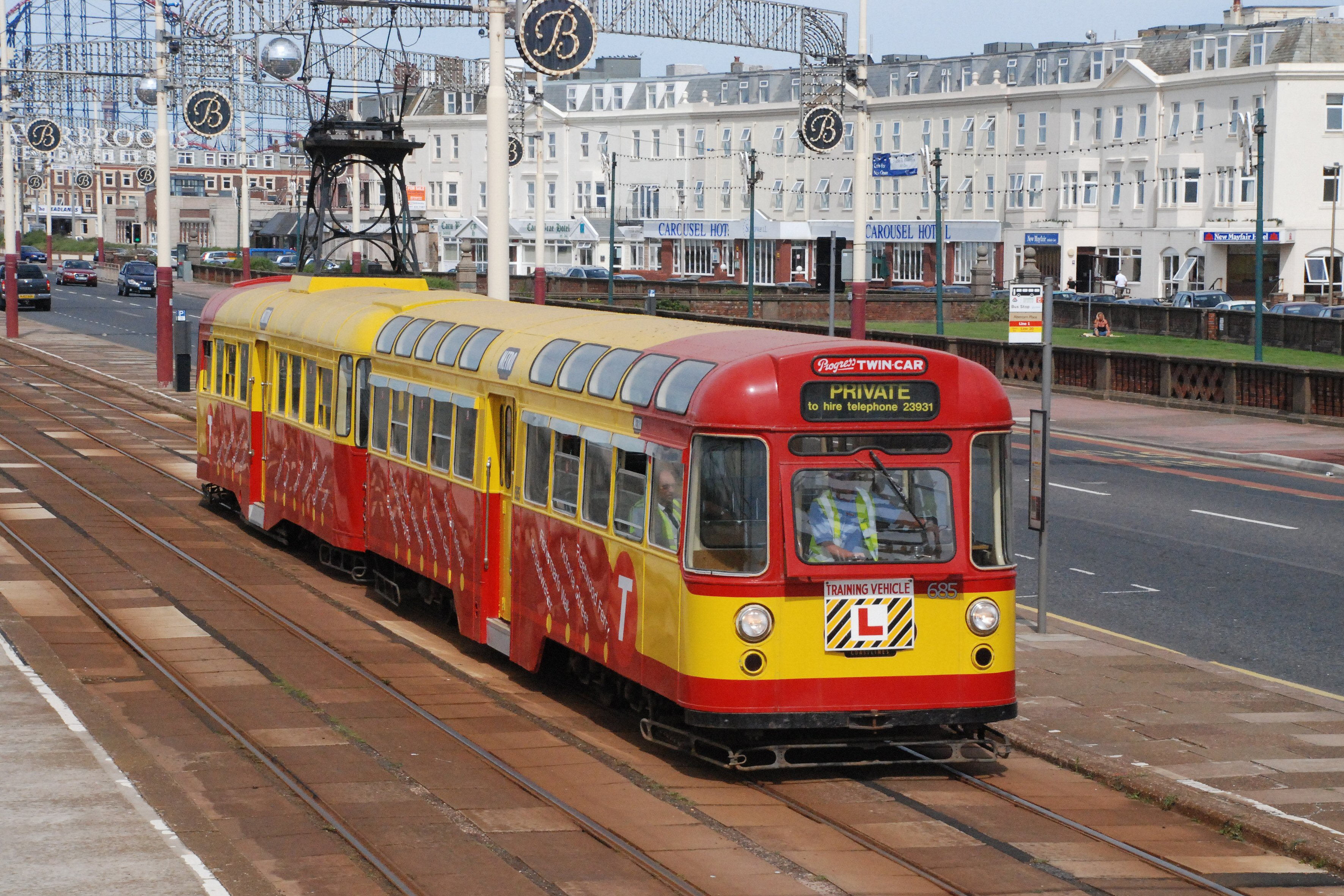 Blackpool Transport Twin Car Set No.675+685. These trams were built in the early 60's from redundant English Electric Railcoaches, the trailers were delivered new. Seen at Starr Gate on 23rd August 2007.